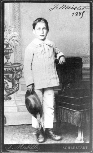 Joseph Meister in 1885, allegedly the first person to be vaccinated against rabies